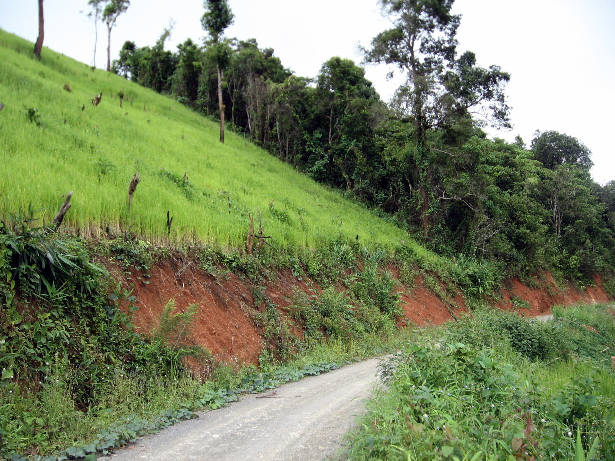 Upland rice growing on a steep slope where forest had recently been cut and burned. Southern Yunnan Province, PRC.